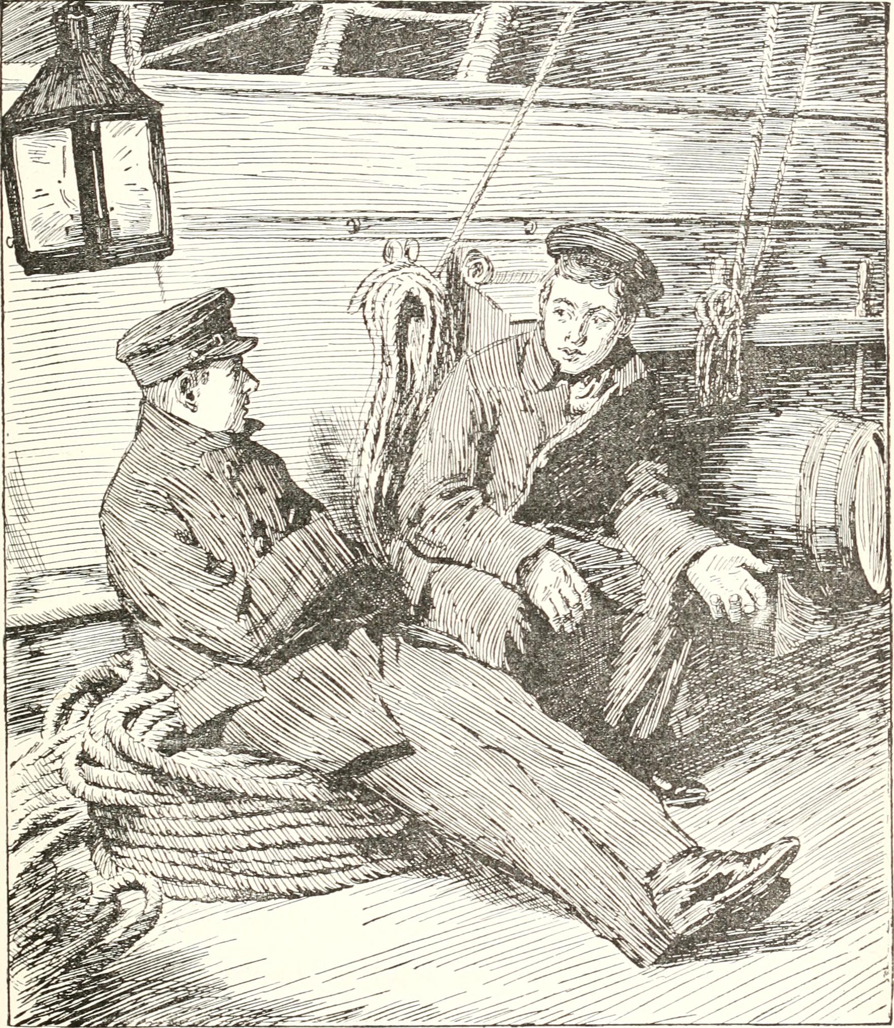 Title: The chatterbox book of soldiers and sailors Year: 1910 (1910s) Authors: Robinson, Anna Weir, Harrison Subjects: Children's literature, American Publisher: Boston, D. Estes Text Appearing Before Image: THE DISCONTENTED SAILOR TACK would be a sailor,^ Sail the ocean blue. With a ho-yo, ho-yo-ho, Nothing else to do. So he joined the squadron, But he found full soon. It was work, and work, and work,Morning, night, and noon. Polishing the brasses. Scrubbing up the decks,Climbing up the rigging. Drenched from feet to neck. Tell you what, cried Jackie, To his mate, Ted Brooks, Taint much like the sea life That you read in books. Text Appearing After Image: RUDOLPHS ADVENTURE T) UDOLPH was out in the woods looking for-*- ^ berries. Suddenly a squad of soldiers camefrom the thick bushes. One of them seized Ru-dolph by the arm. A spy, a spy, he said gruffly,thinking it a joke to frighten the little fellow. Justthen an officer galloped up. Dismounting, he askedRudolph why he looked so frightened. Because,answered Rudolph, one of the men said I was aspy, and Im just a little boy looking for berries. Of course, said the officer kindly, bending downand patting the boys shoulder. Rudolph was notfrightened any more. Do you know the way toGlanchan ? asked the officer. Why, yes, saidthe boy, delighted to serve the officer, I live there.So the men set out for Glanchan, Rudolph leadingthe way proudly. And when the men entered thegarrison at Glanchan, Rudolph, a bright new pennyin his pocket, ran home as fast as ever he could, totell his mother all about his adventure.